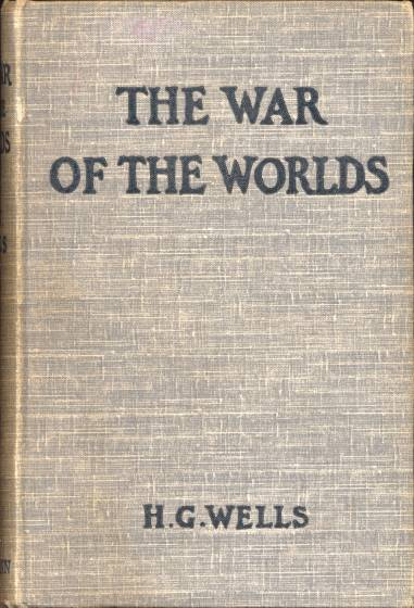 First edition cover of the novel "The War of the Worlds" by H. G. Wells. The image is in public domain because the autor died more than 70 years ago.